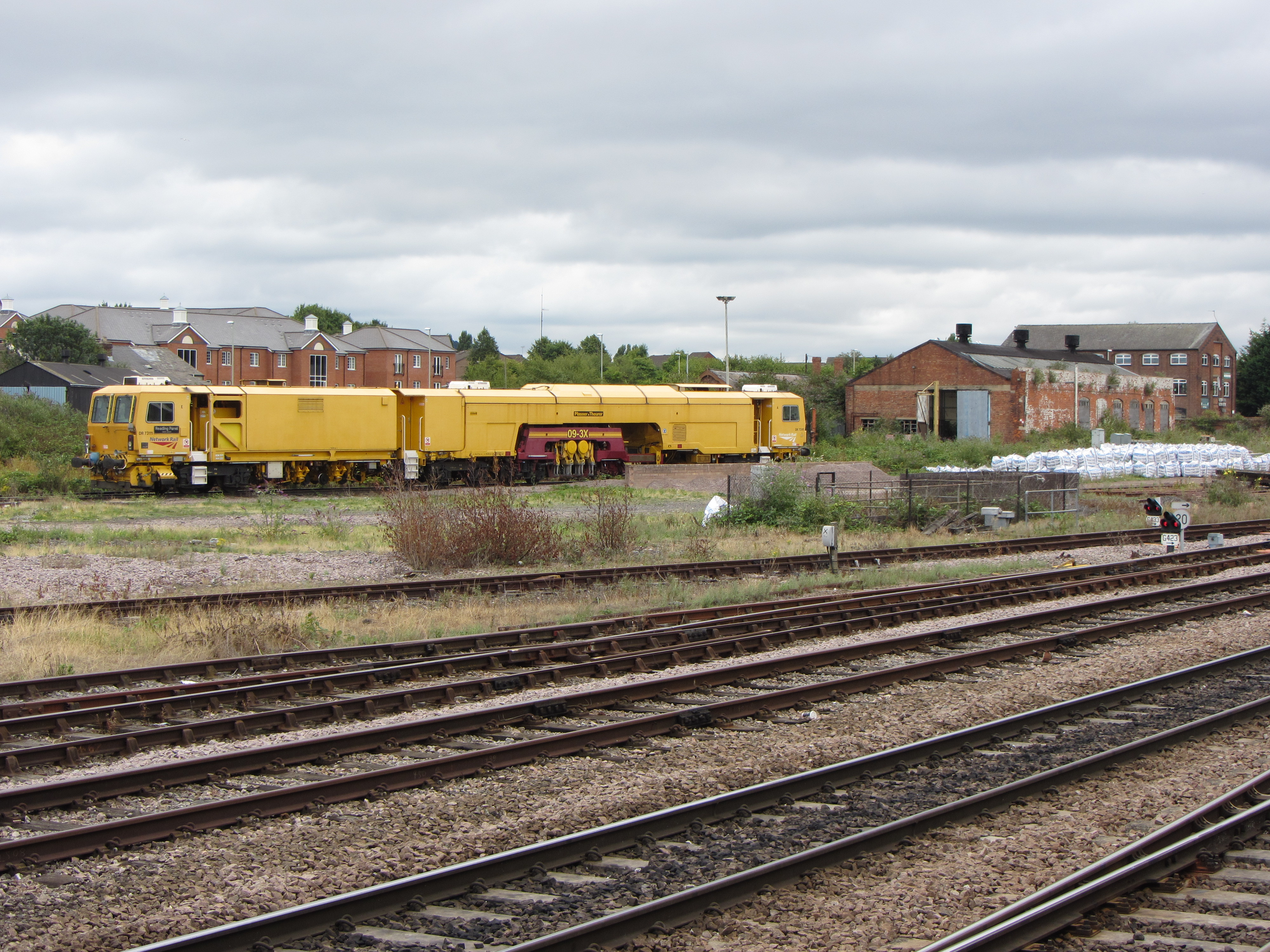 Gloucester Horton Road rail depot